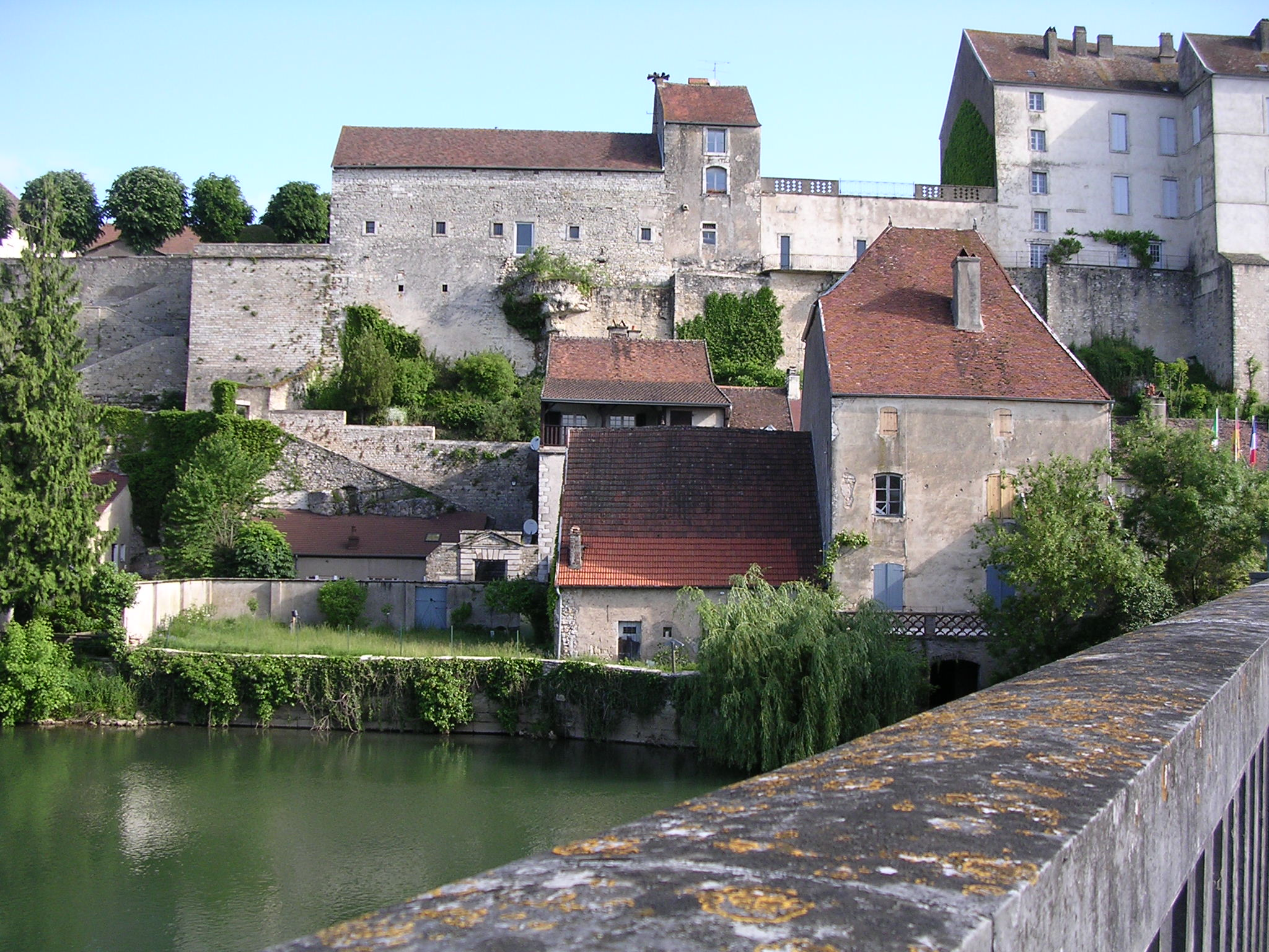 Pesmes, Franche-Comté, FRANCE Pesmes. Vue depuis le pont sur la rivière l'Ognon (Franche-Comté)